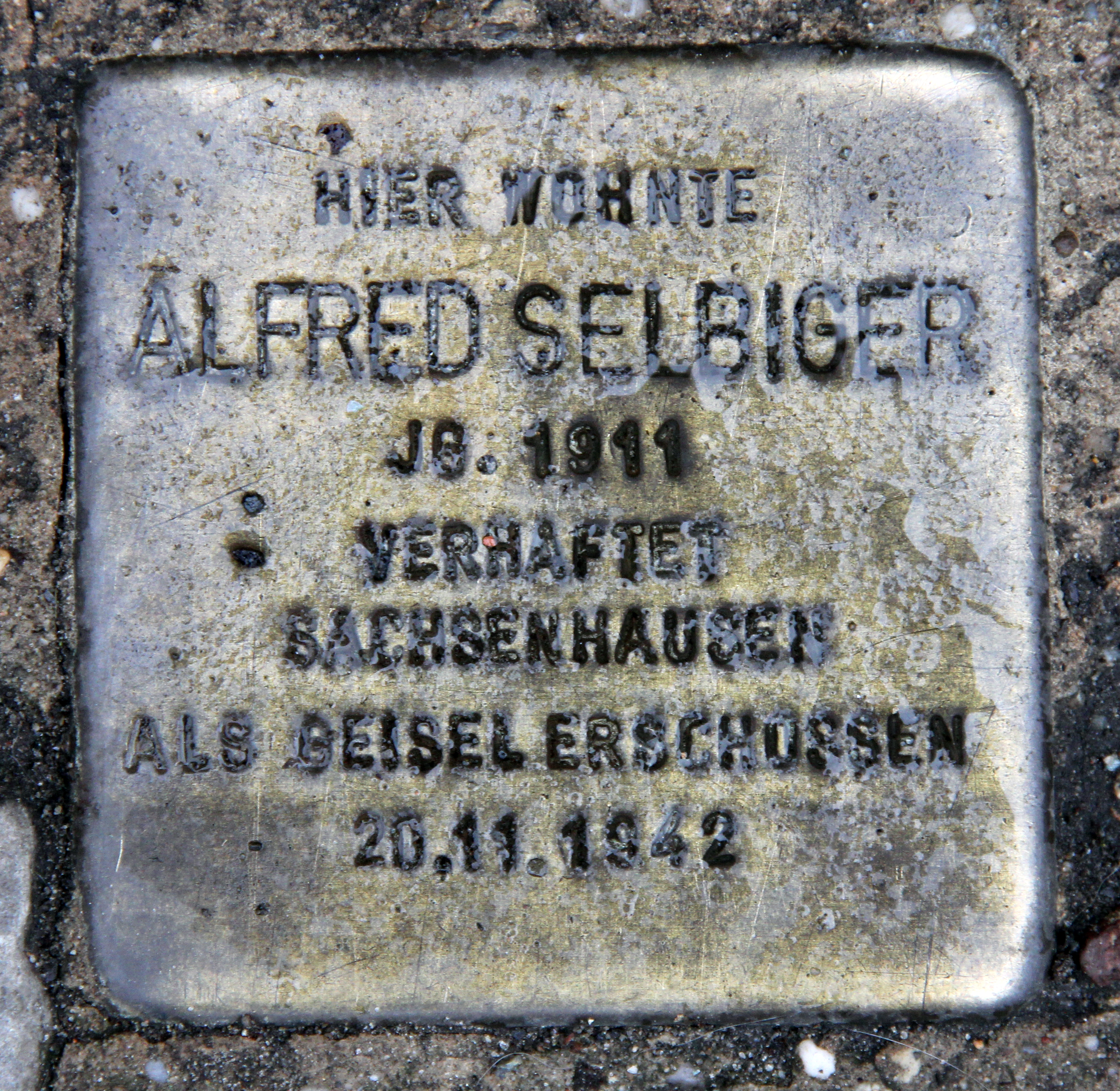 "Stolperstein" (stumbling block), Alfred Selbiger, Güldenhofer Ufer 10, Berlin-Baumschulenweg, Germany